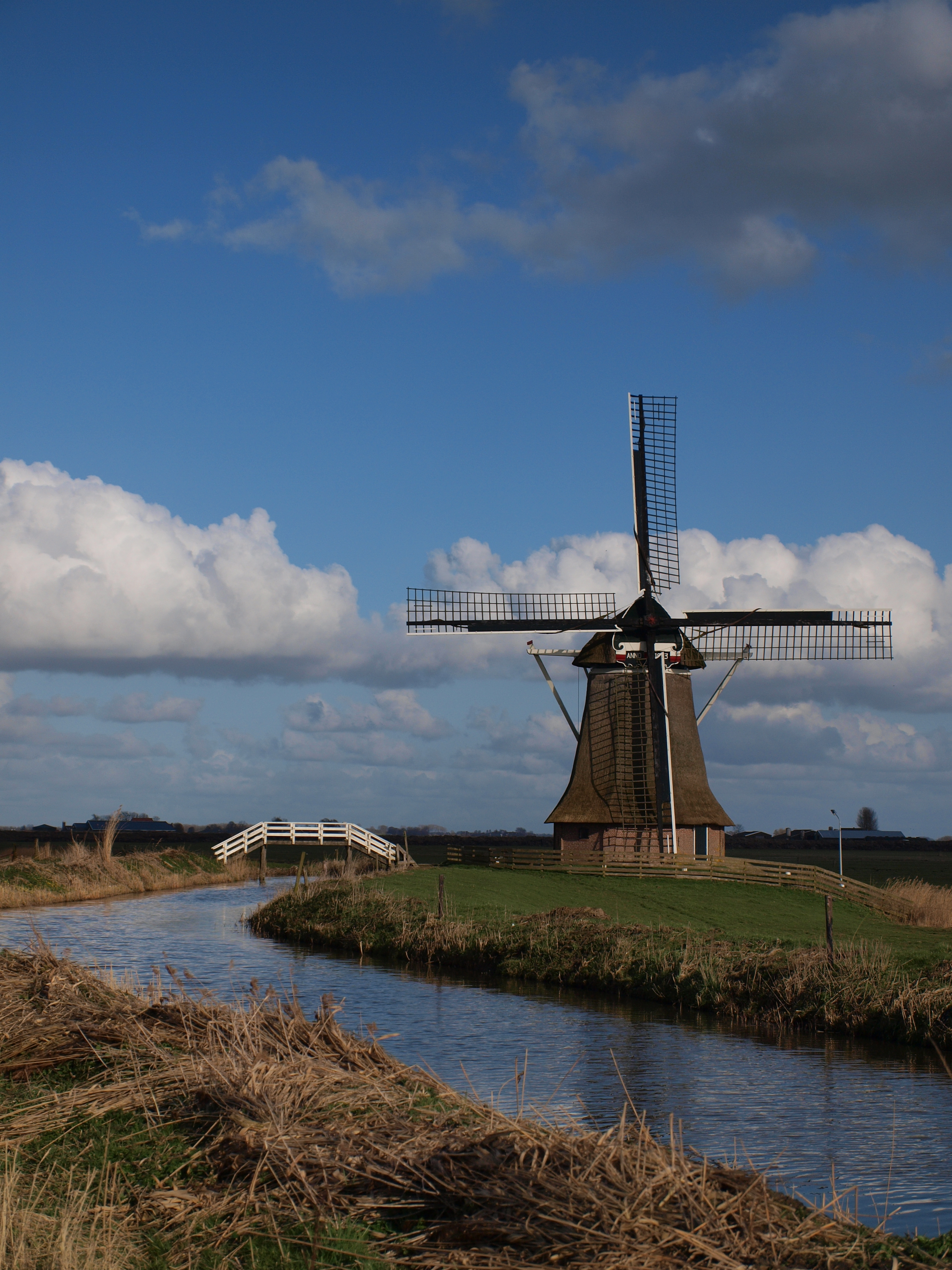 Hempenserpoldermolen, windmill